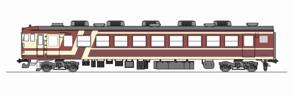 The side view of the EMU series 165 of JNR "Moonlight" Color 2nd formation.